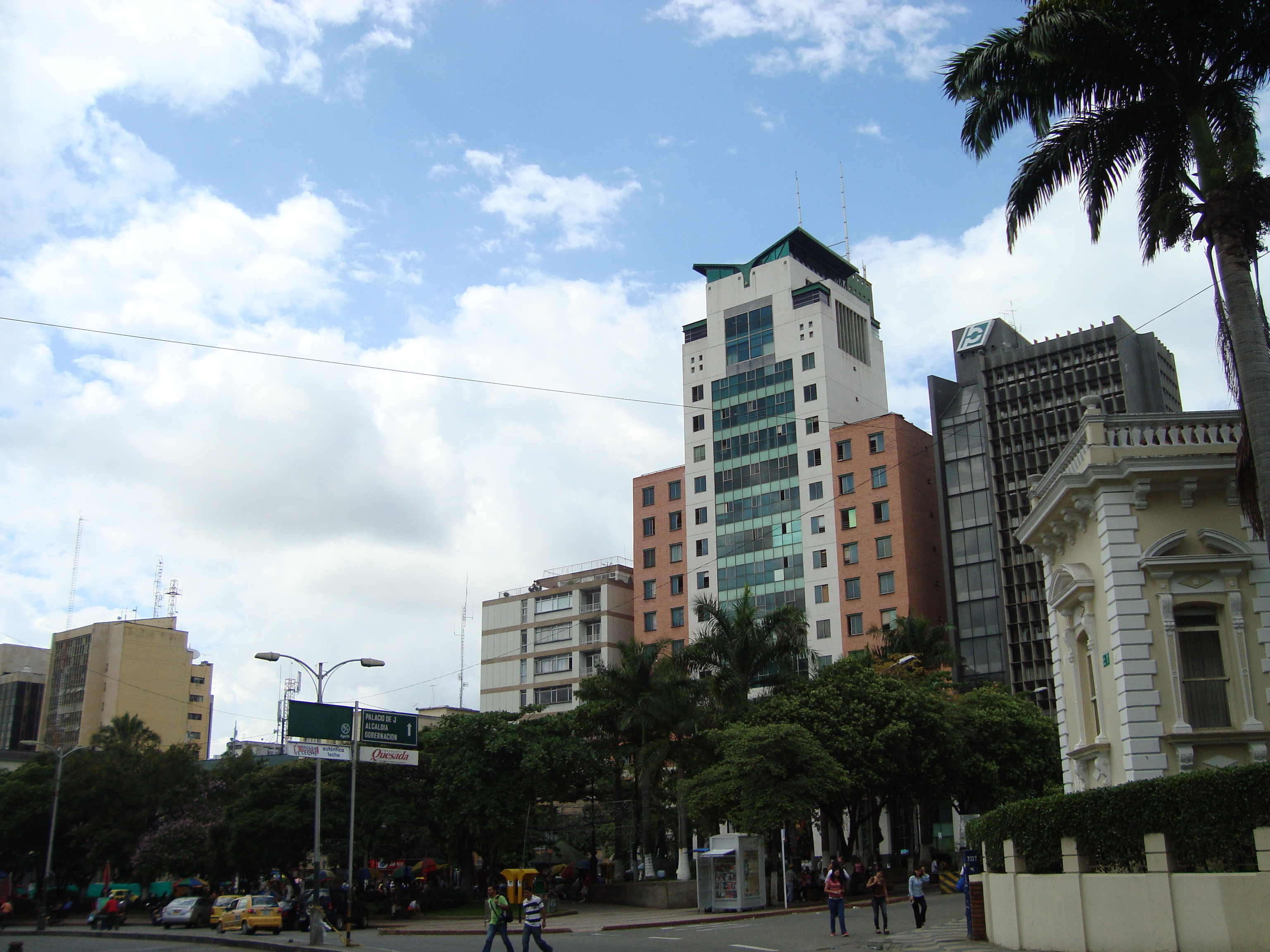 Financial Center of the city Bucaramanga Colombia